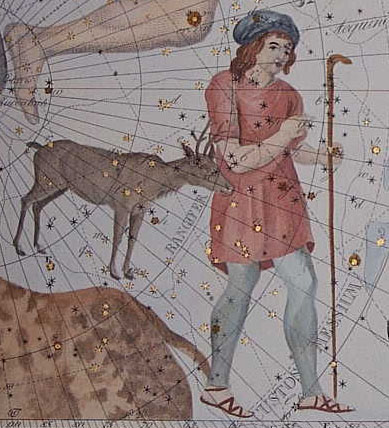 Tarandus vel Rengifer Custom Messium